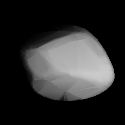 3D convex shape model of 1187 Afra, computed using light curve inversion techniques. J. Hanuš, J. Ďurech, M. Brož, B. D. Warner (June 2011). "A study of asteroid pole-latitude distribution based on an extended set of shape models derived by the lightcurve inversion method". Astronomy and Astrophysics 530: A134. ISSN 0004-6361. arXiv